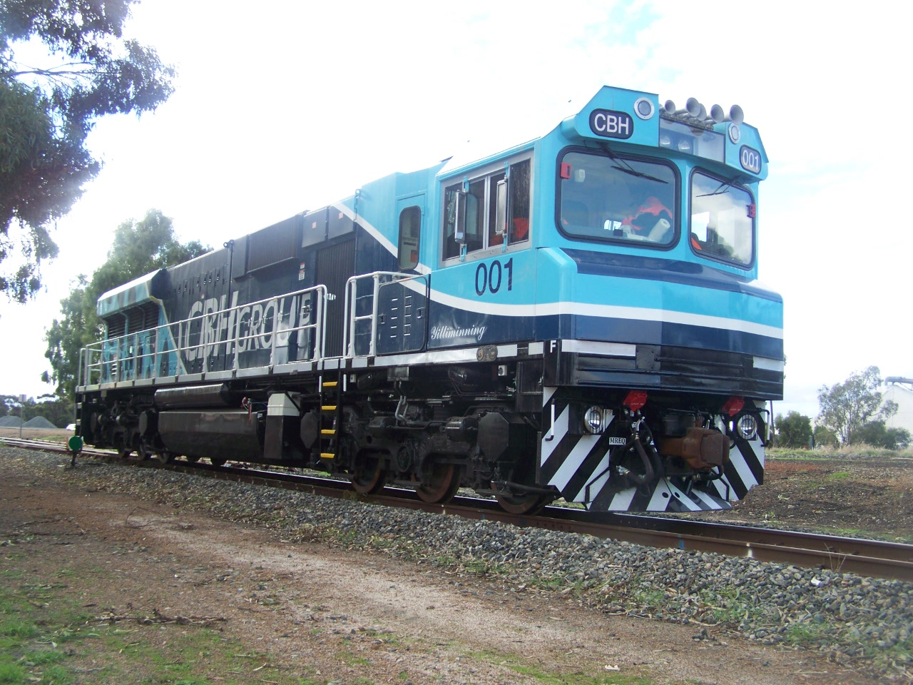 Portrait of CBH class locomotive no. CBH001 Yilliminning, at Wagin, Western Australia. Photograph by Daryle Phillips Circa 2012